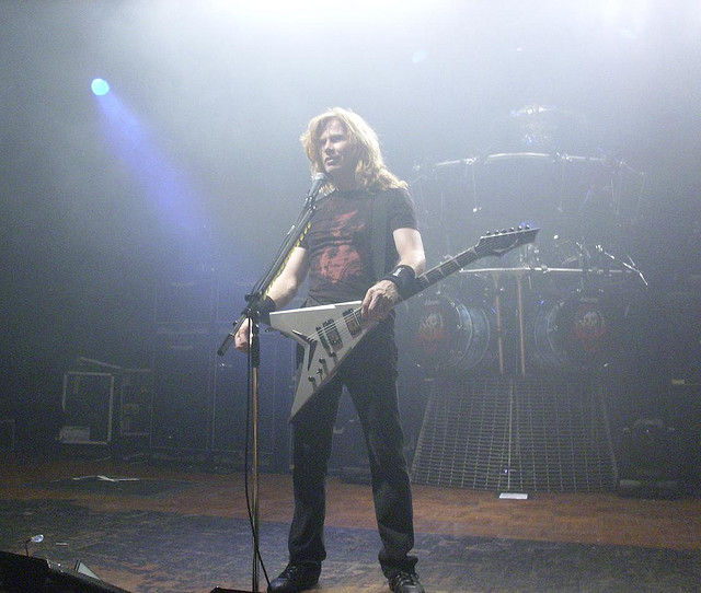 Dave Mustaine Live